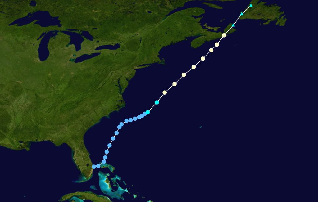 Hurricane Beth (1971) track. Uses the color scheme from the Saffir-Simpson Hurricane Scale.